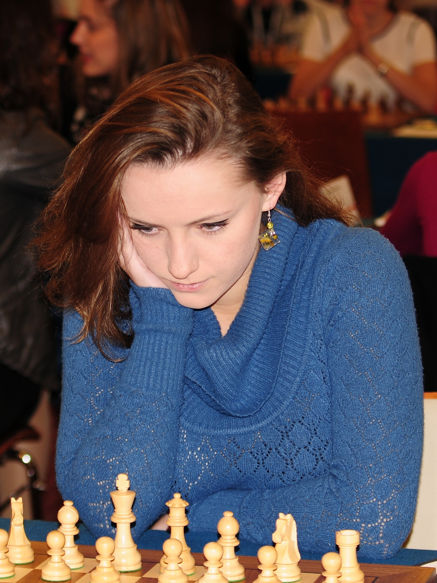 WIM Yuliya Shvayger, European Chess Team Championship Warsaw 2013